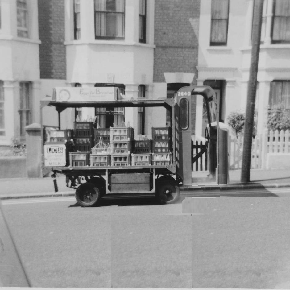 A Lewis Electruk rider pram, operated by London Co-operative Society, fleet number 2640, registration number SJD 884, in Southend-on-Sea, Essex, England, around 1969